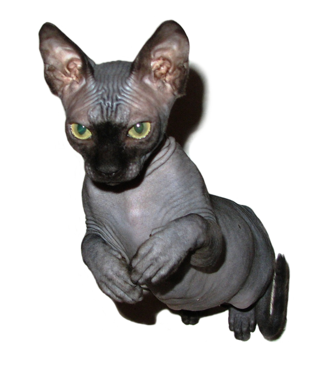 Canadian Sphynx rare black